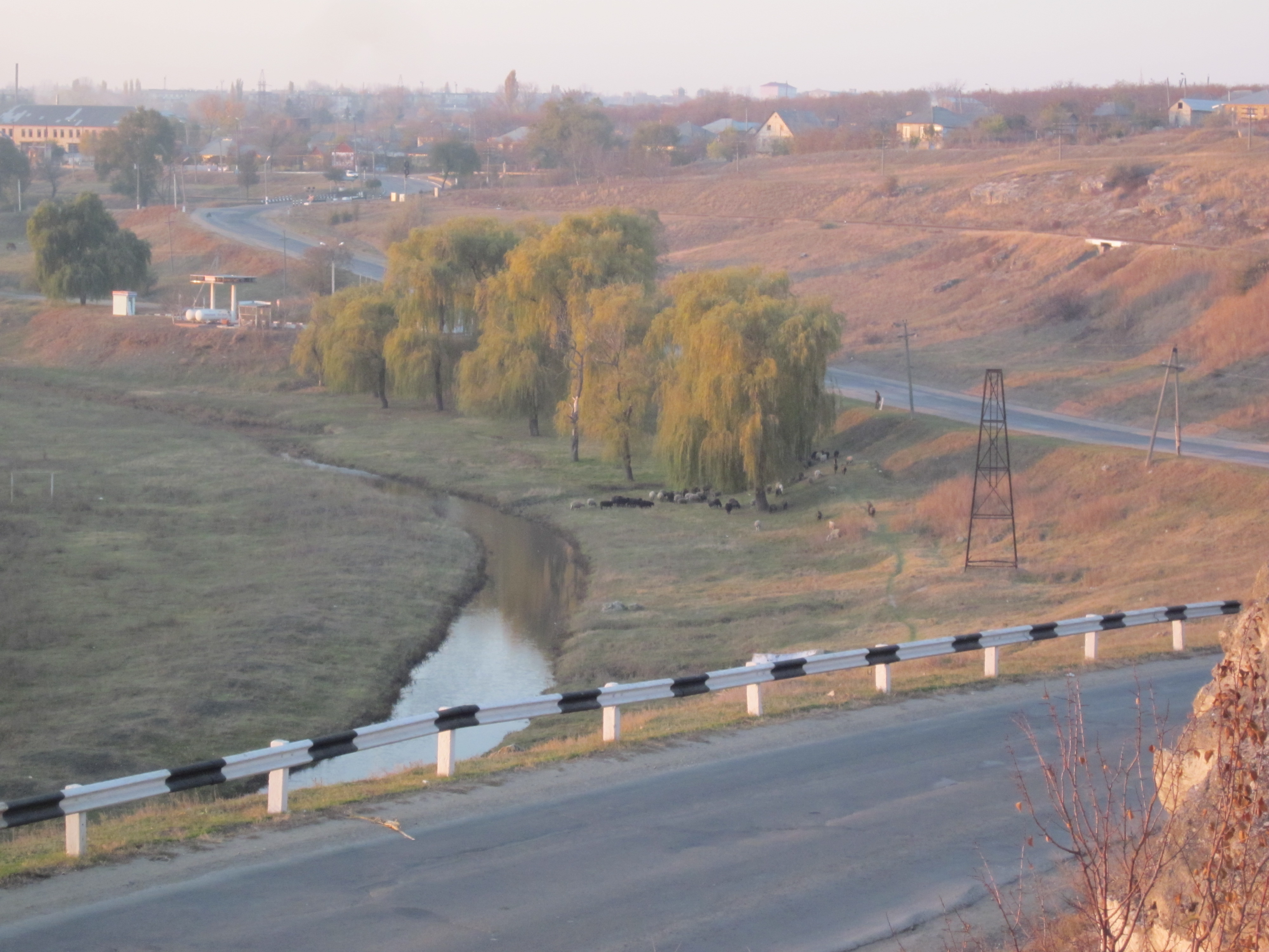 A shepherd with his flock of sheep near Floresti (Moldova)